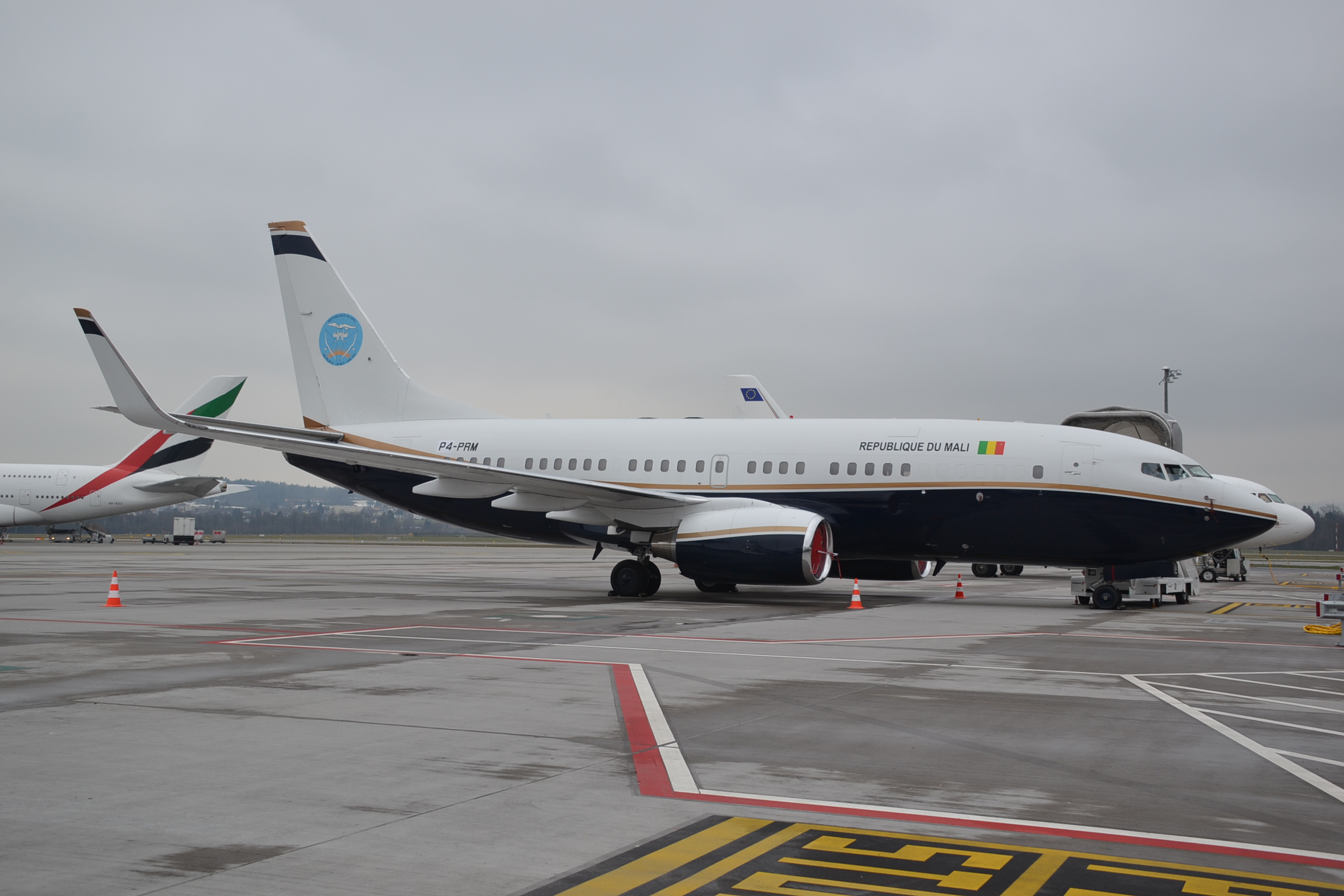 Boeing 737/7BBJ of the Gvmnt.of Mali at Zurich-ZRH, Switzerland, 21/01/15.